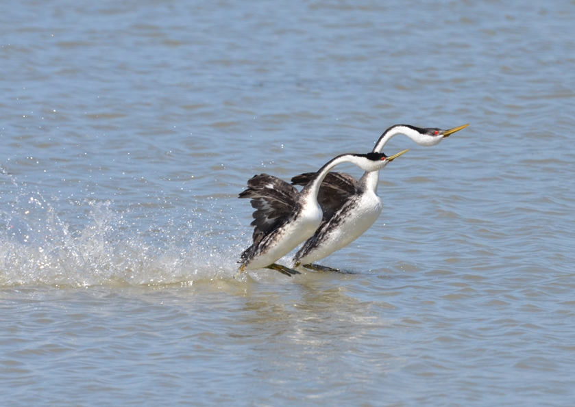 Two Western Grebes dancing on top of the water as part of their courtship ritual at Bear River Refuge. Second place winner in Grebes! category Bear River Refuge Photo Contest 2014. Photo credit: Wayne Watson / USFWS